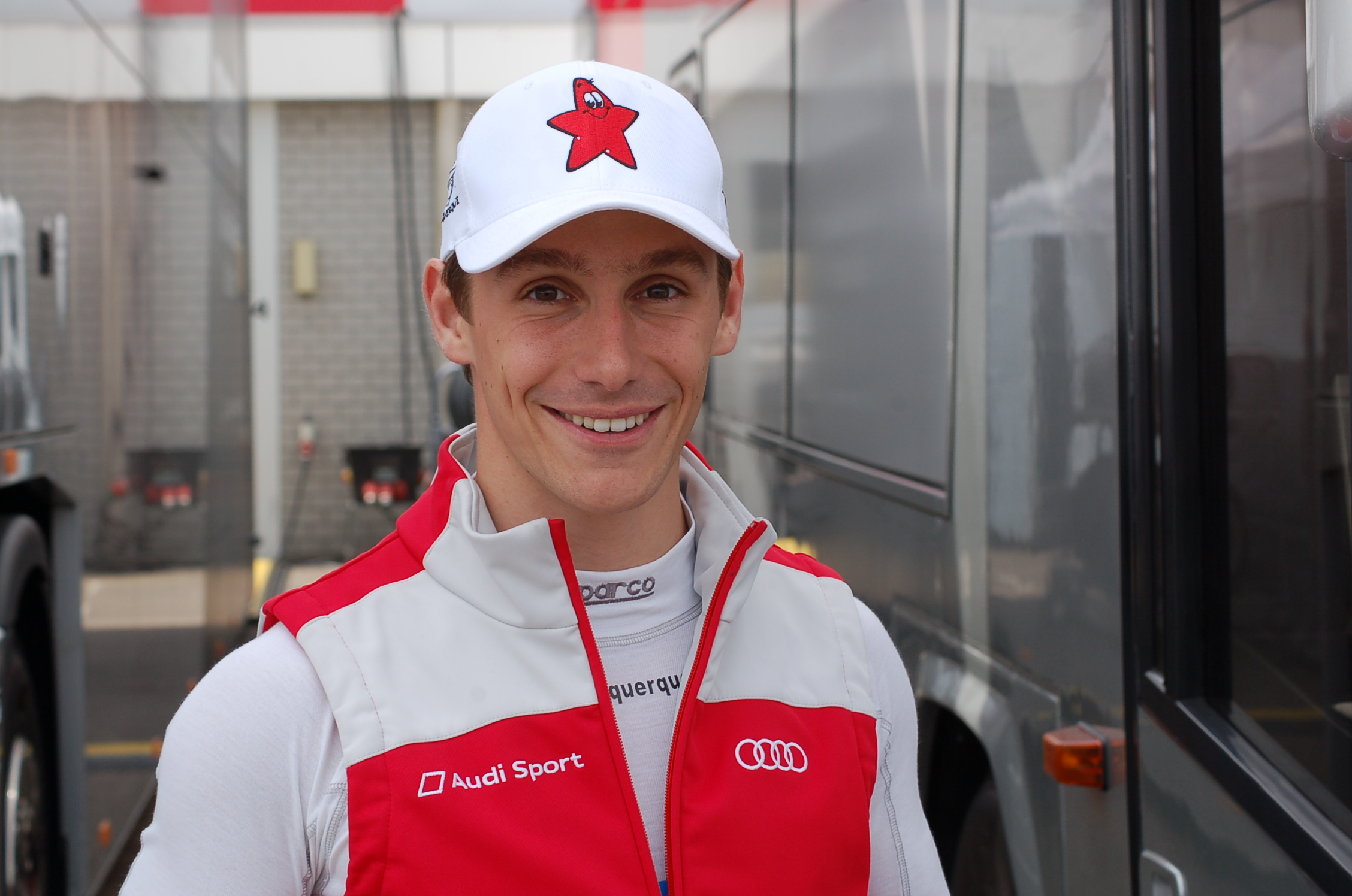 Filipe Albuquerque at Zandvoort 2011